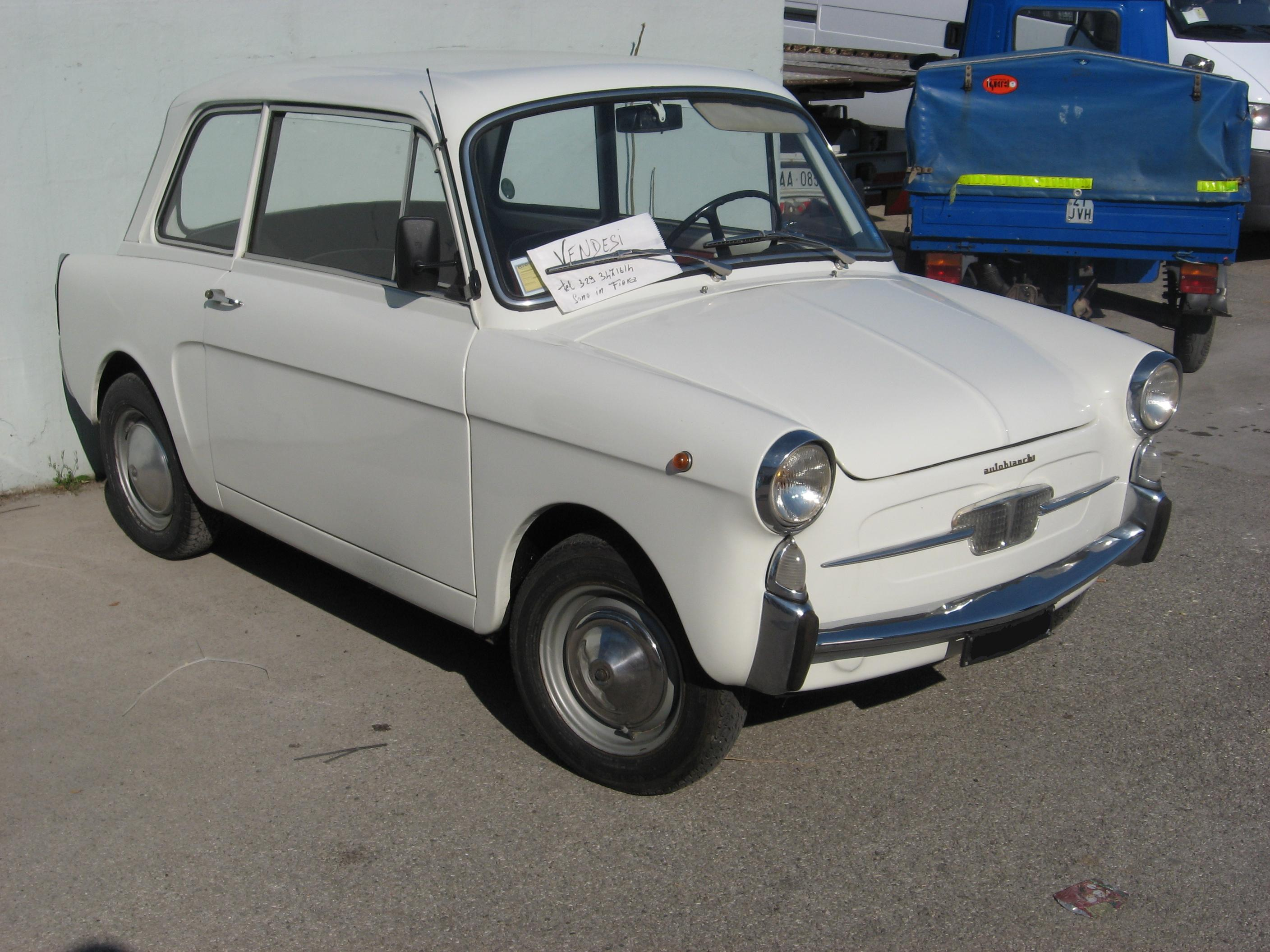 Subject: Autobianchi Bianchina Berlina Author: Luc106 Date: 18th March 2007 City/Country: Forlì (Italy) Event: Old Time Show I release all rights in the public domain.